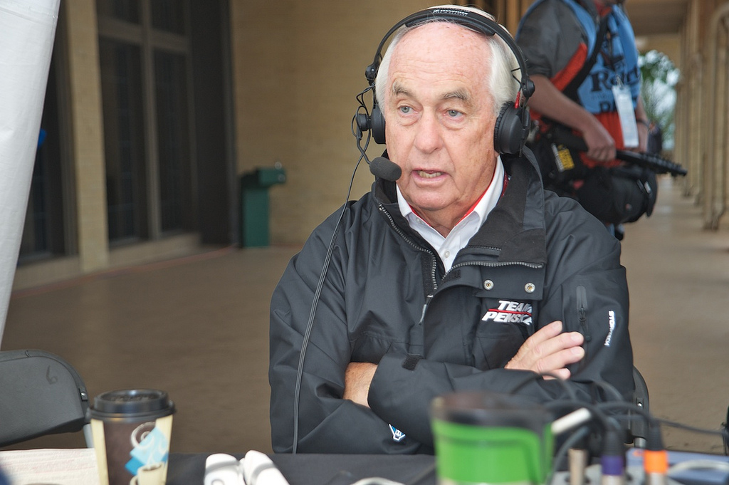 Paul W. Smith Interviewing Roger Penske at the 2012 Detroit Belle Isle Grand Prix.